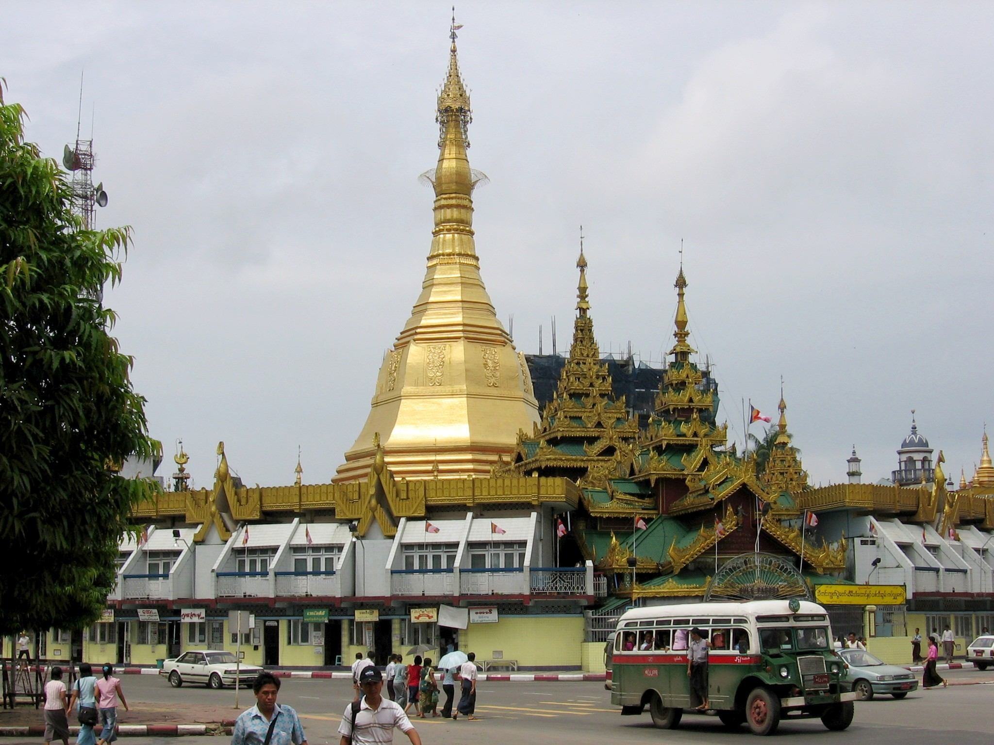 Sule Pagoda is a pagoda located on a roundabout in downtown Yangon, Myanmar.